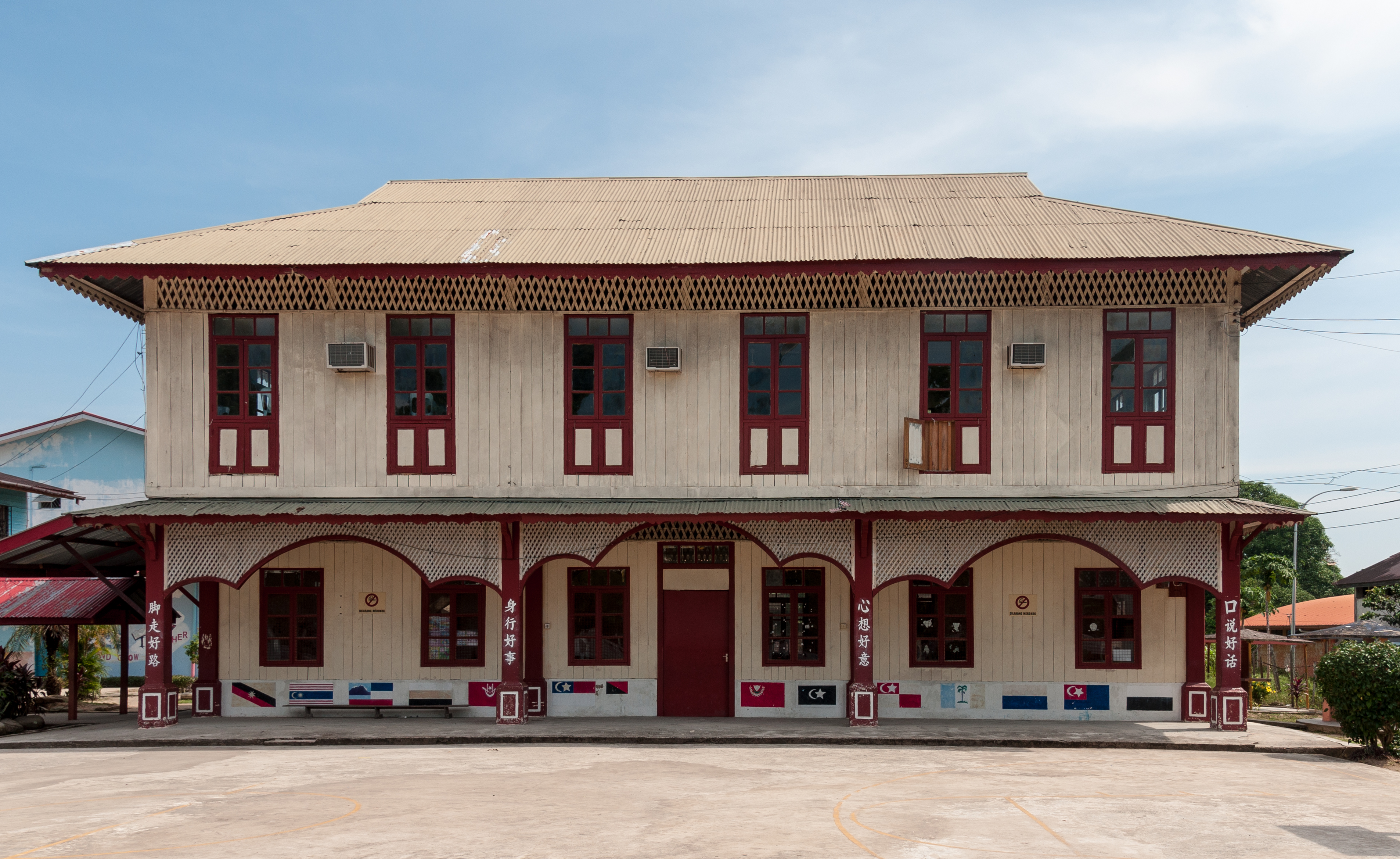 Pei Yin Primary School (Sekolah Jenis Kebangsaan Pei Yin)